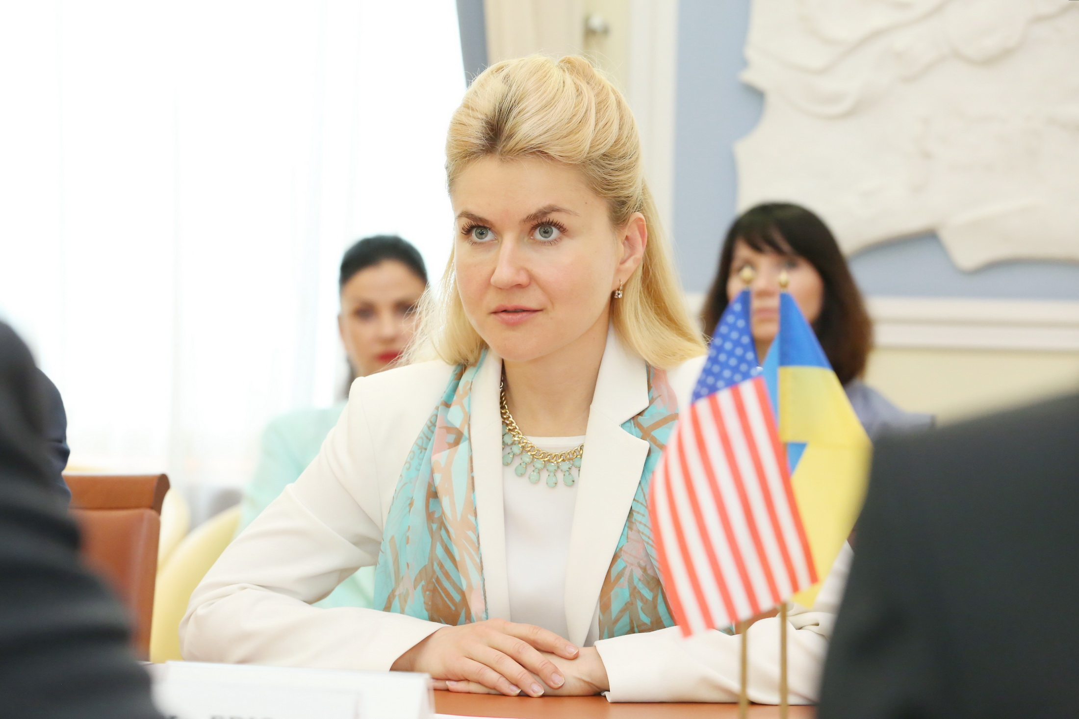 Julia Svetlichnaya meeting with US delegation